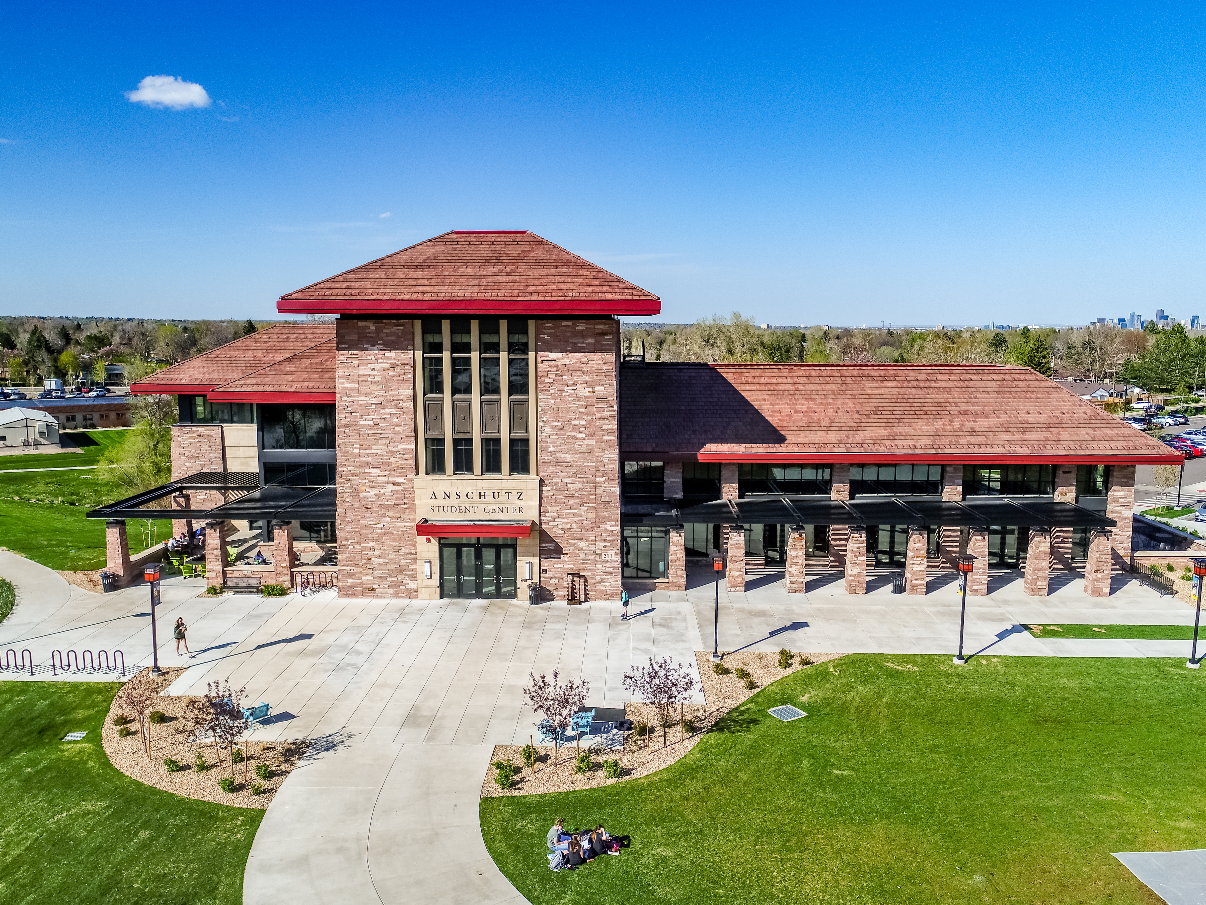 Anschutz Student Center on Colorado Christian University campus